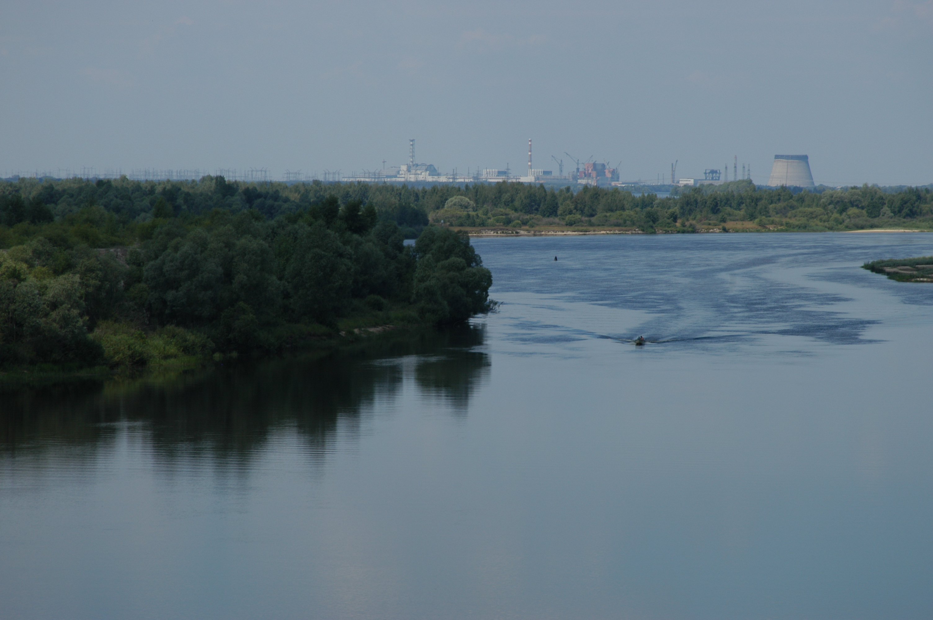 In looking for clues about the environmental effects of the radiation fall-out, scientists use nature's "outdoor laboratory" to probe for answers. The Pripyat River, situated by the Chernobyl Nuclear Power Plant feeds a large artificial lake called the Kiev Water Reservoir where scientists trawl for samples. (Pripyat, Ukraine, July 2005) Photo Credit: Petr Pavlicek/IAEA